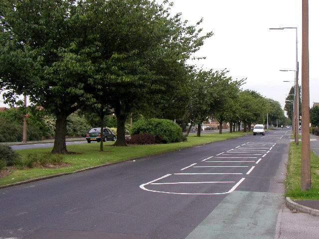 Preston Road, Hull. Taken from MR: TA14203034 looking in a westerly direction.